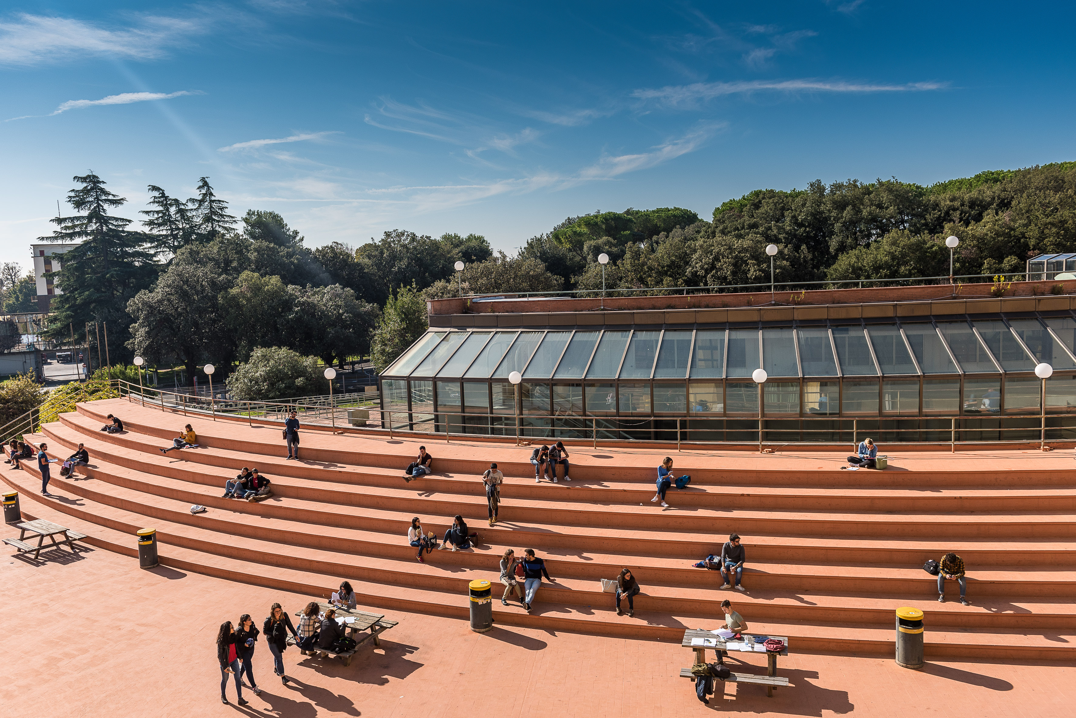 Dipartimento di Economica_Università di Pisa